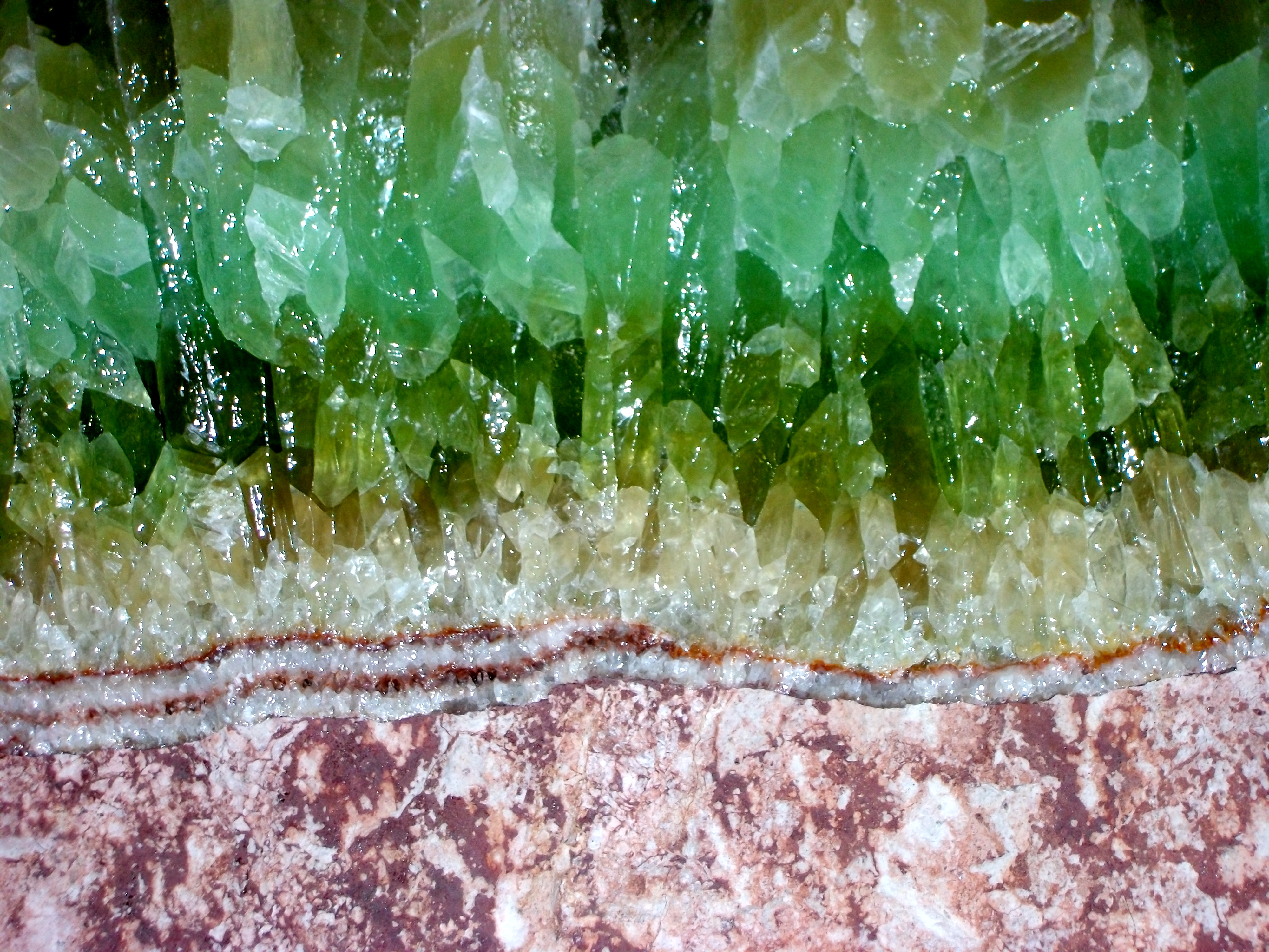 Calcite crystals on the matrix. From Mexico.